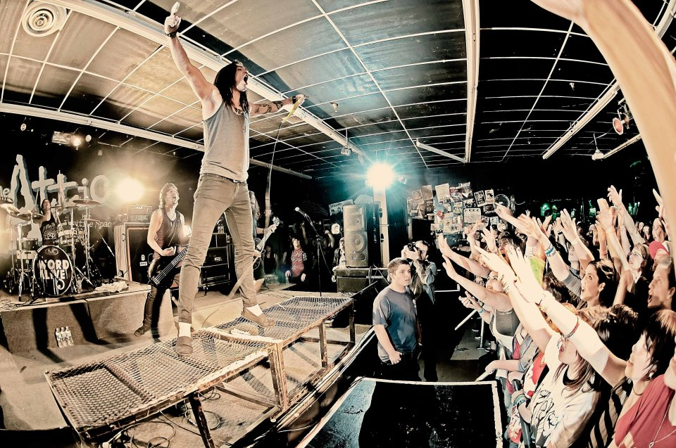 This is a photo of The Word Alive performing live at the Slam Dunk Festival live on 5/27/2012